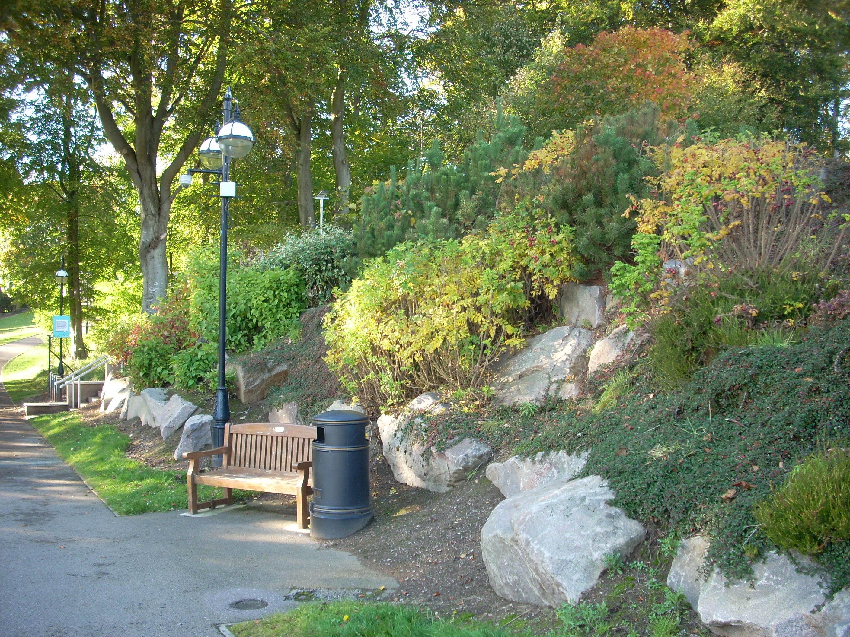 Rockery along "University Street" between Business School building and Scott Sutherland building, at the Garthdee campus of the Robert Gordon University, Aberdeen, October 2012